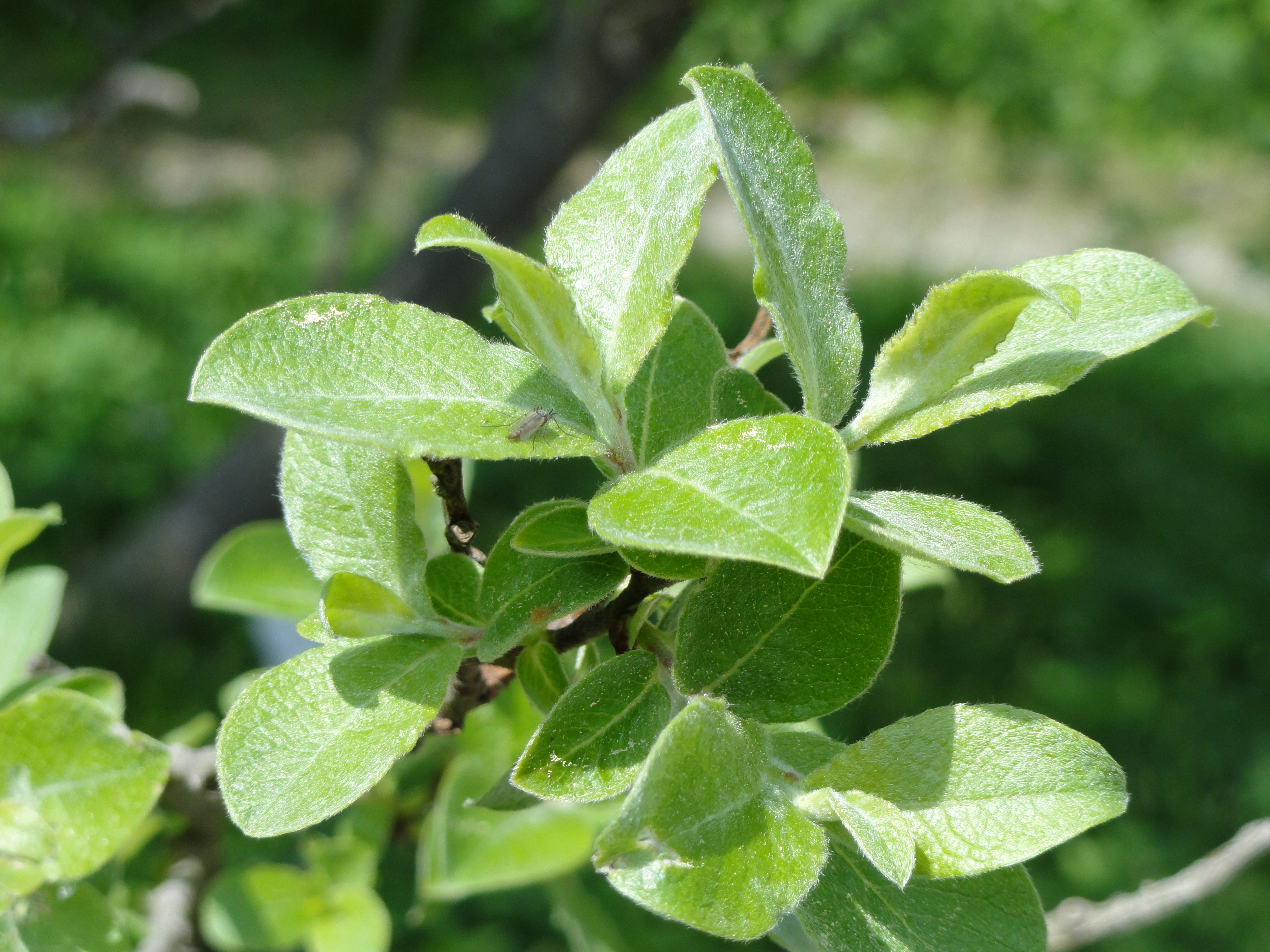 Salix aegyptiaca specimen in the Botanischer Garten München-Nymphenburg, Munich, Germany.